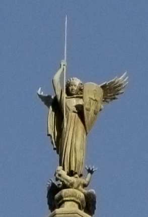 Archangel Michael from the northwestern tower at Nidaros Cathedral. The statue is modelled by Kristoffer Leirdal. The statues face is modelled after Bob Dylans face.